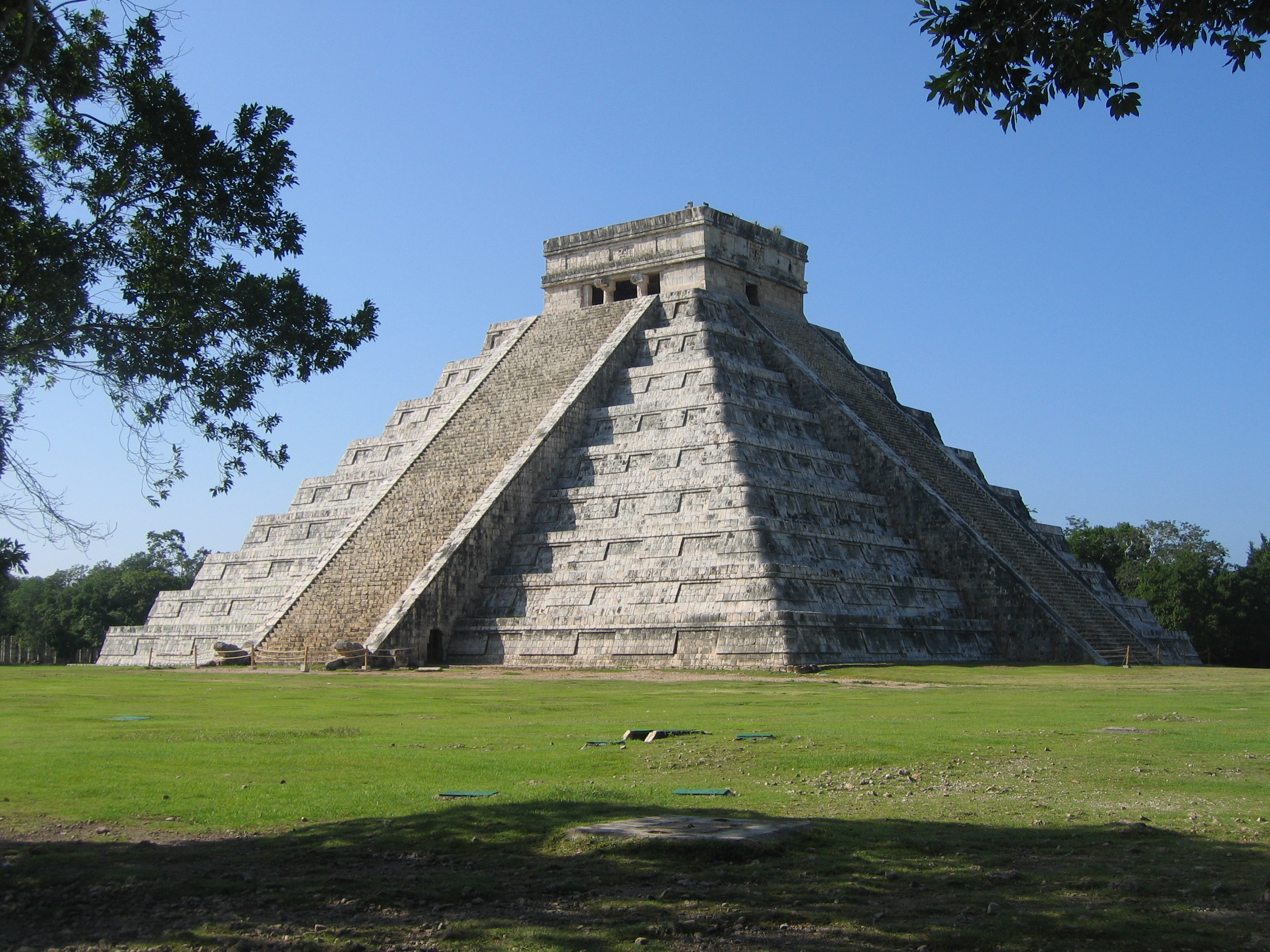 Chichen Itza (Mexico), El castillo, August 2006